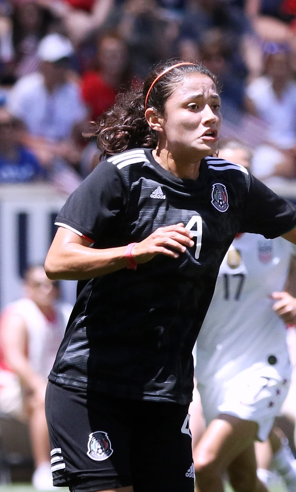 Rebeca Bernal playing for Mexico against the United States on May 26, 2019.